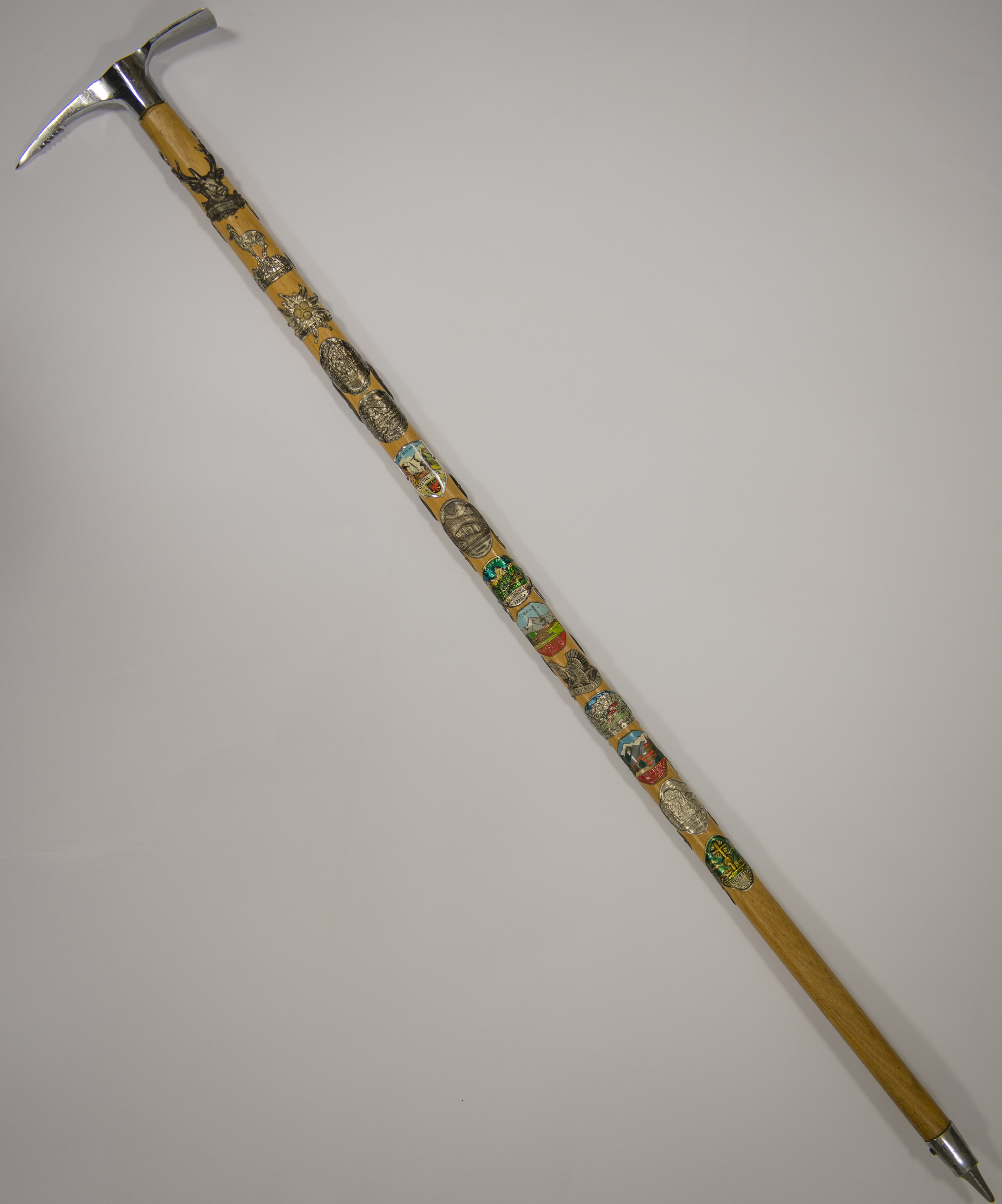 Ice axe for decoration with "Stocknägeln" (german)